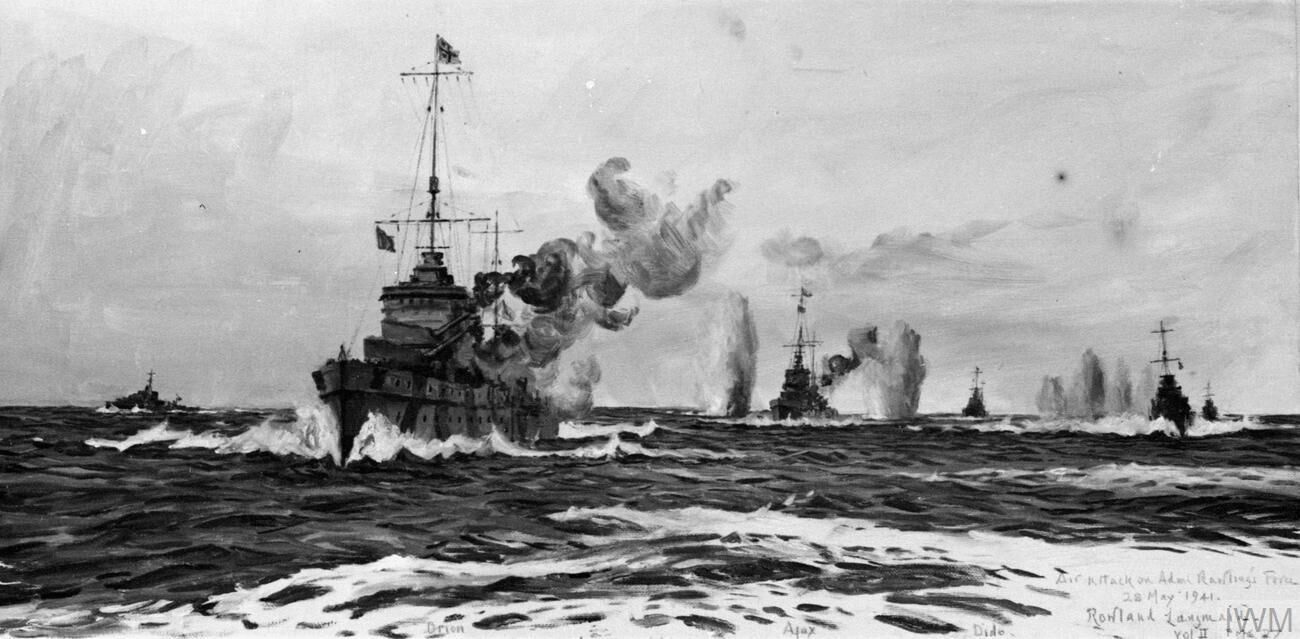 Photograph of painting of Rear Admiral Rawlings' force during the Battle of Crete, 28 May 1941. Text at the bottom of the image reads, "Orion, Ajax, Dido." Pictures For Illustrating Ritchie II Book. November and December 1942, Alexandria, Pictures of Paintings by Lieutenant Commander R Langmaid, Rn, Official Fleet Artist. These Pictures Are For Illustrating a Naval War Book by Paymaster Captain L a Da C Ritchie, Rn.